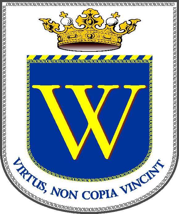 Coat of Arms of Wirtland, sovereign web-based country ( a new micronation)